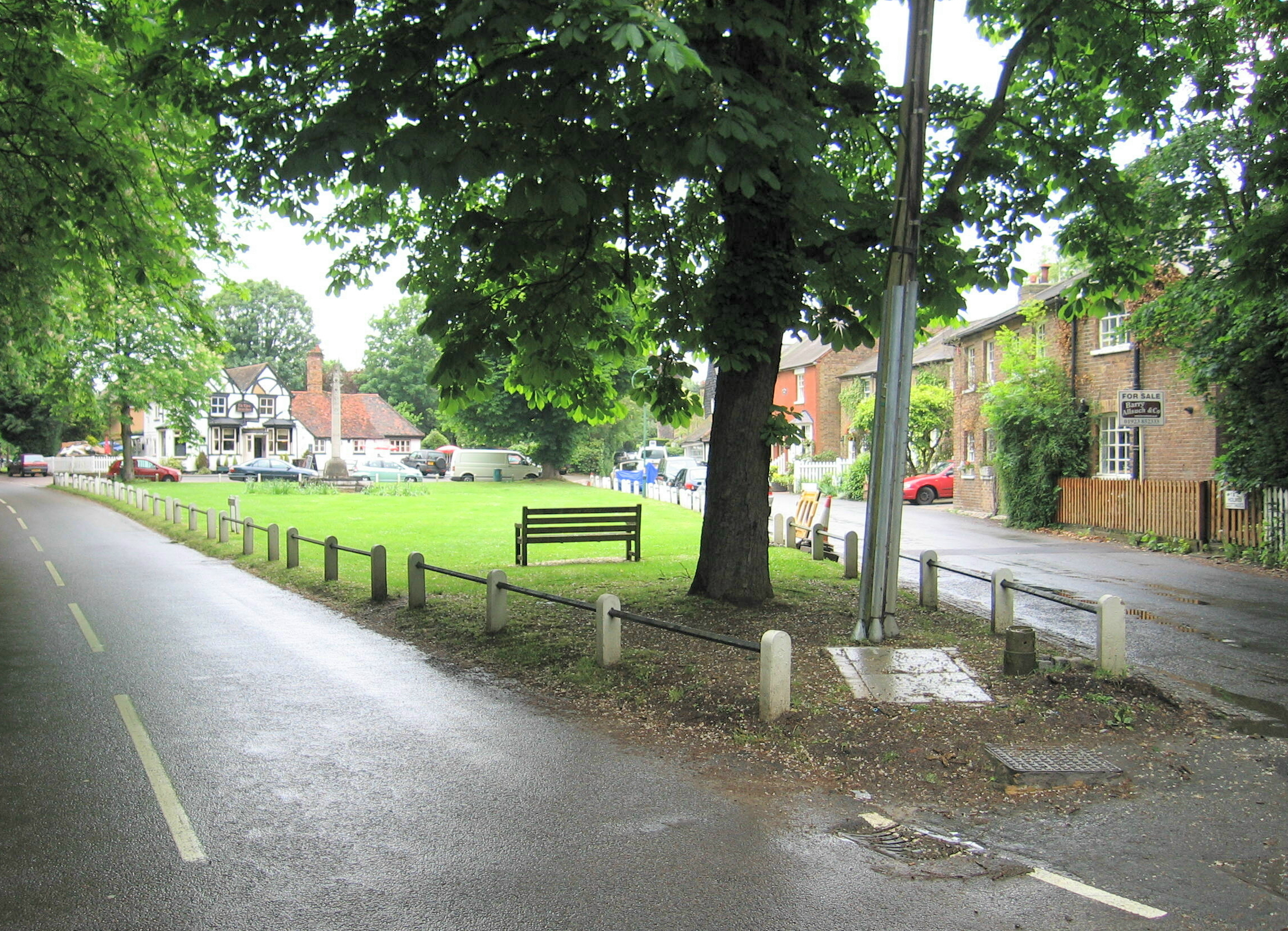 Letchmore Heath. The Green and the Three Horseshoes pub. The place where the red car is parked on the right featured as a garden centre in the Rosemary & Thyme episode "Enter Two Gardeners".